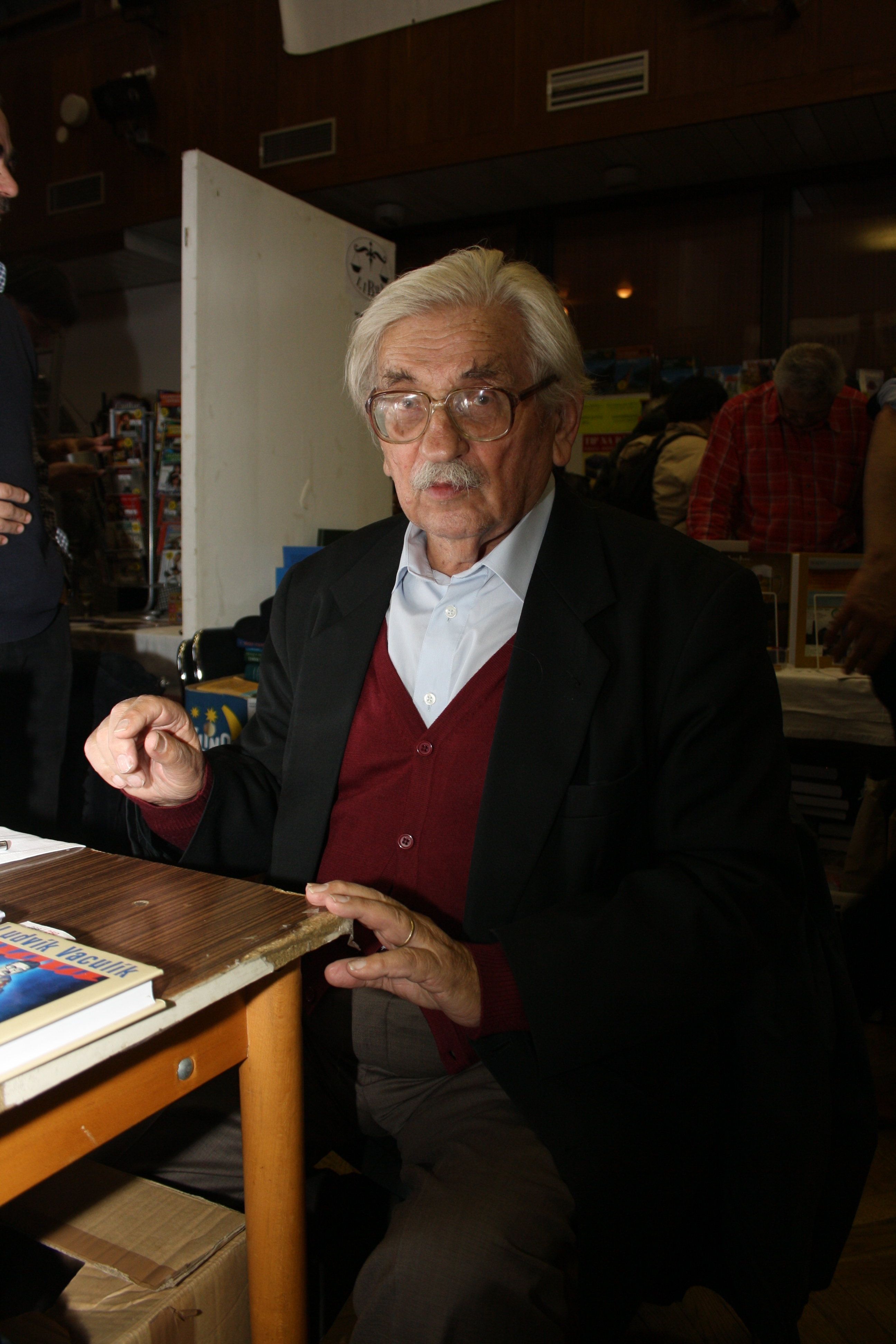 Ludvík Vaculík, Czech writer